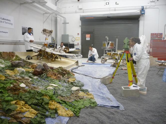 Rover-team members at NASA's Jet Propulsion Laboratory, Pasadena, Calif., check slight movements by a test rover during tests simulating the challenge of getting NASA's Mars Exploration Rover Spirit out of a sand trap on Mars. From left: Alfonso Herrera, Matt Van Kirk, Mike Seibert, Brenda Franklin.